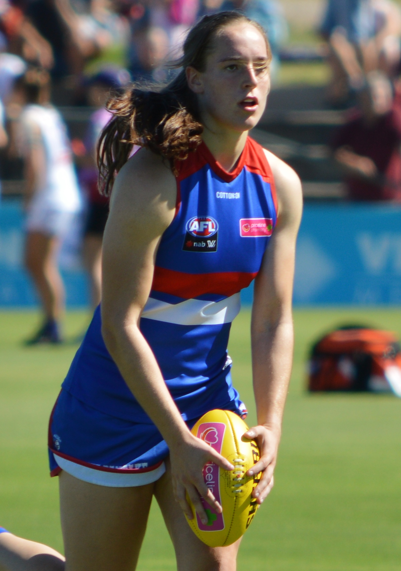 Isabel Huntington during the round 1 2018, AFL Women's match between the Western Bulldogs and Fremantle.